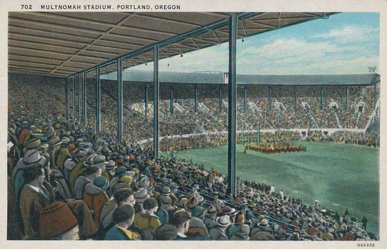 A postcard depicting an American football game at Multnomah Stadium